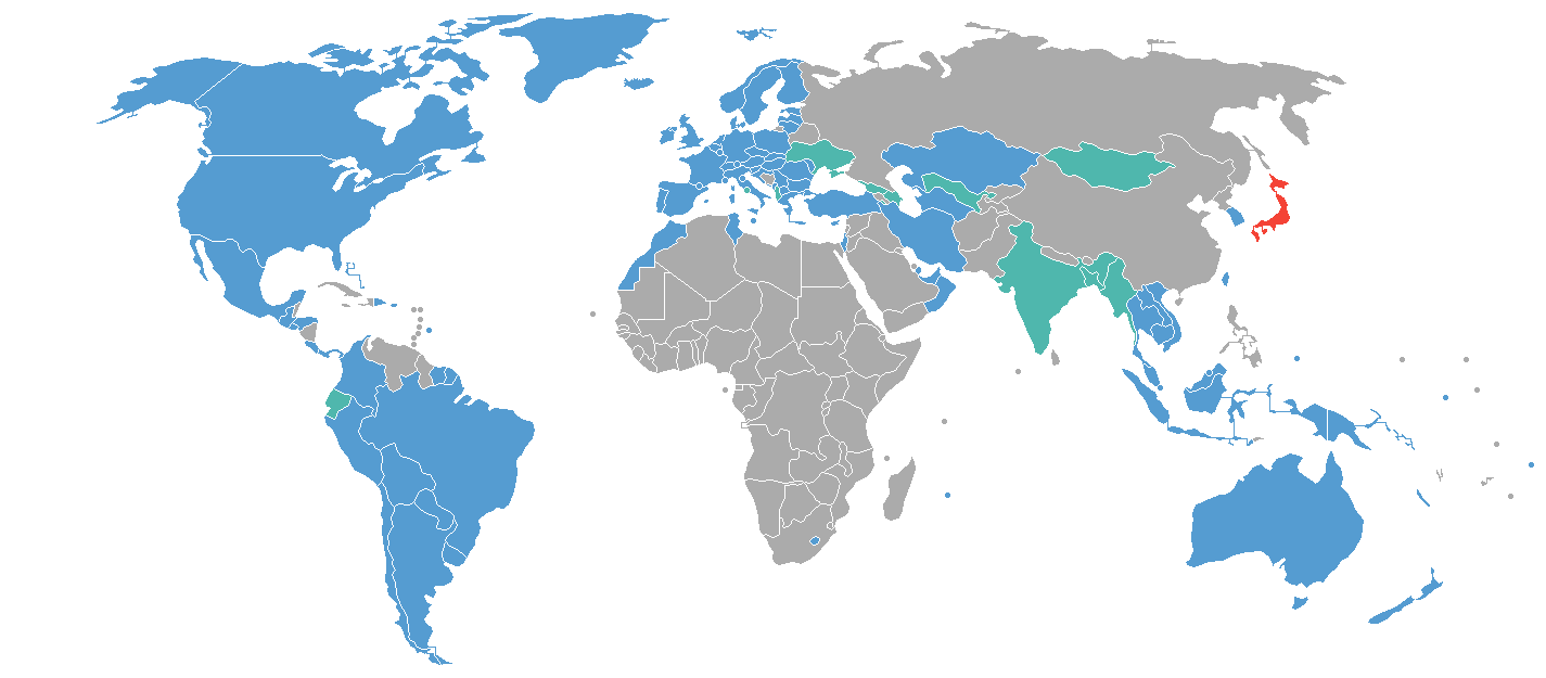 Visa policy of Japan for holders of diplomatic and service category passports Japan Visa free access for diplomatic and service category passports Visa free access for diplomatic passports